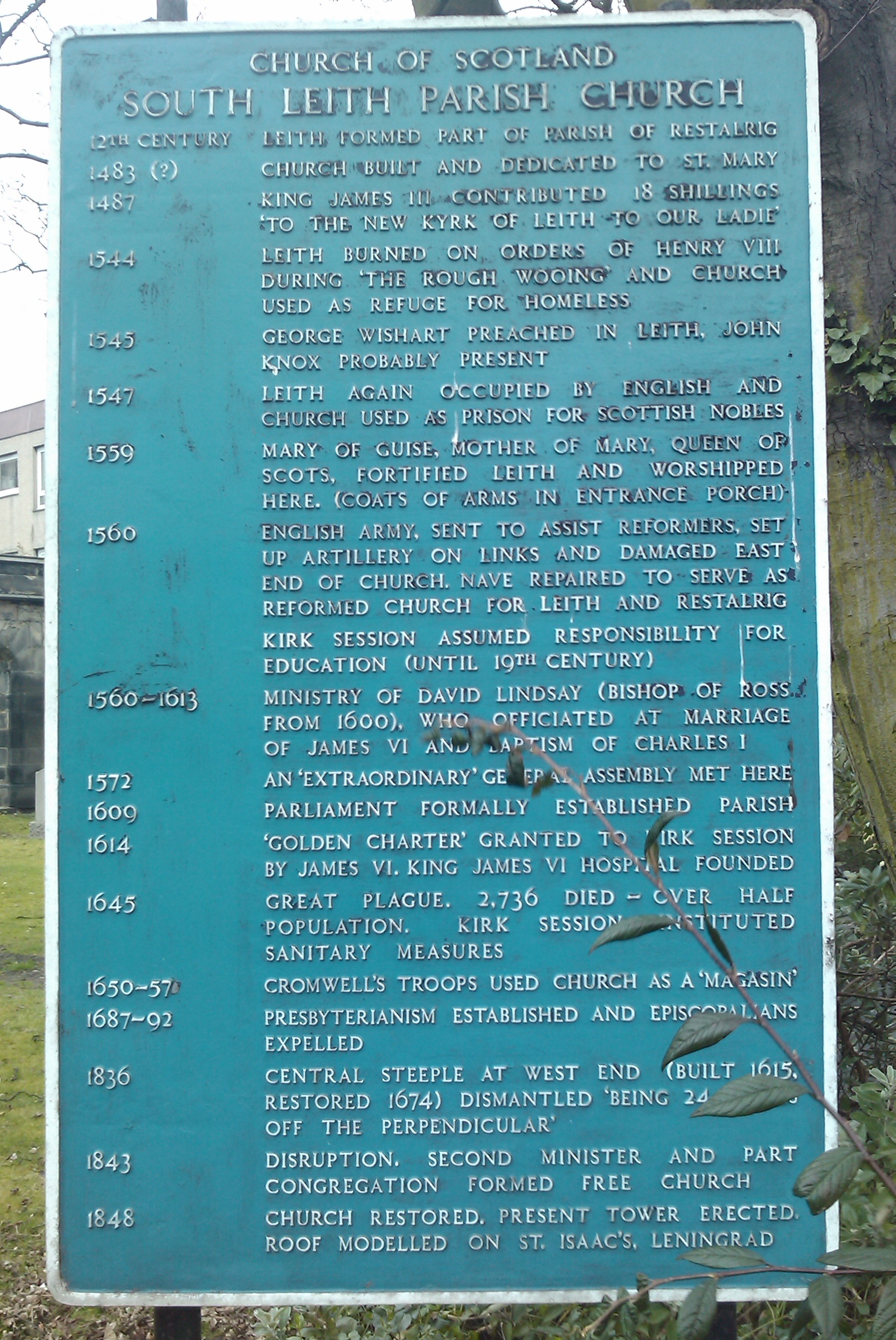 History Sin at Leith South church of Scotland